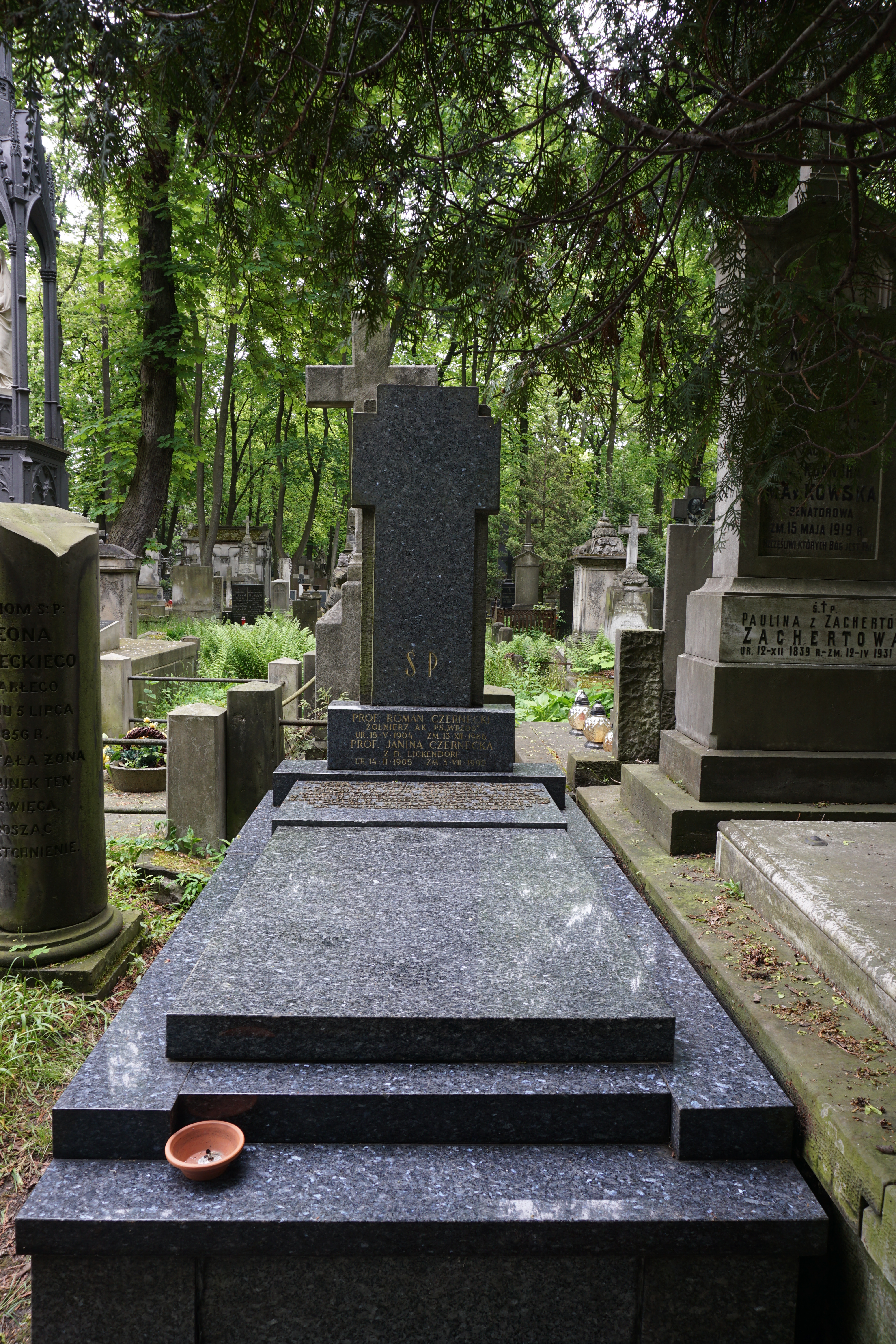 The grave of Roman Czernecki at the Powązki Cemetery (section 22, row 4, grave 9)